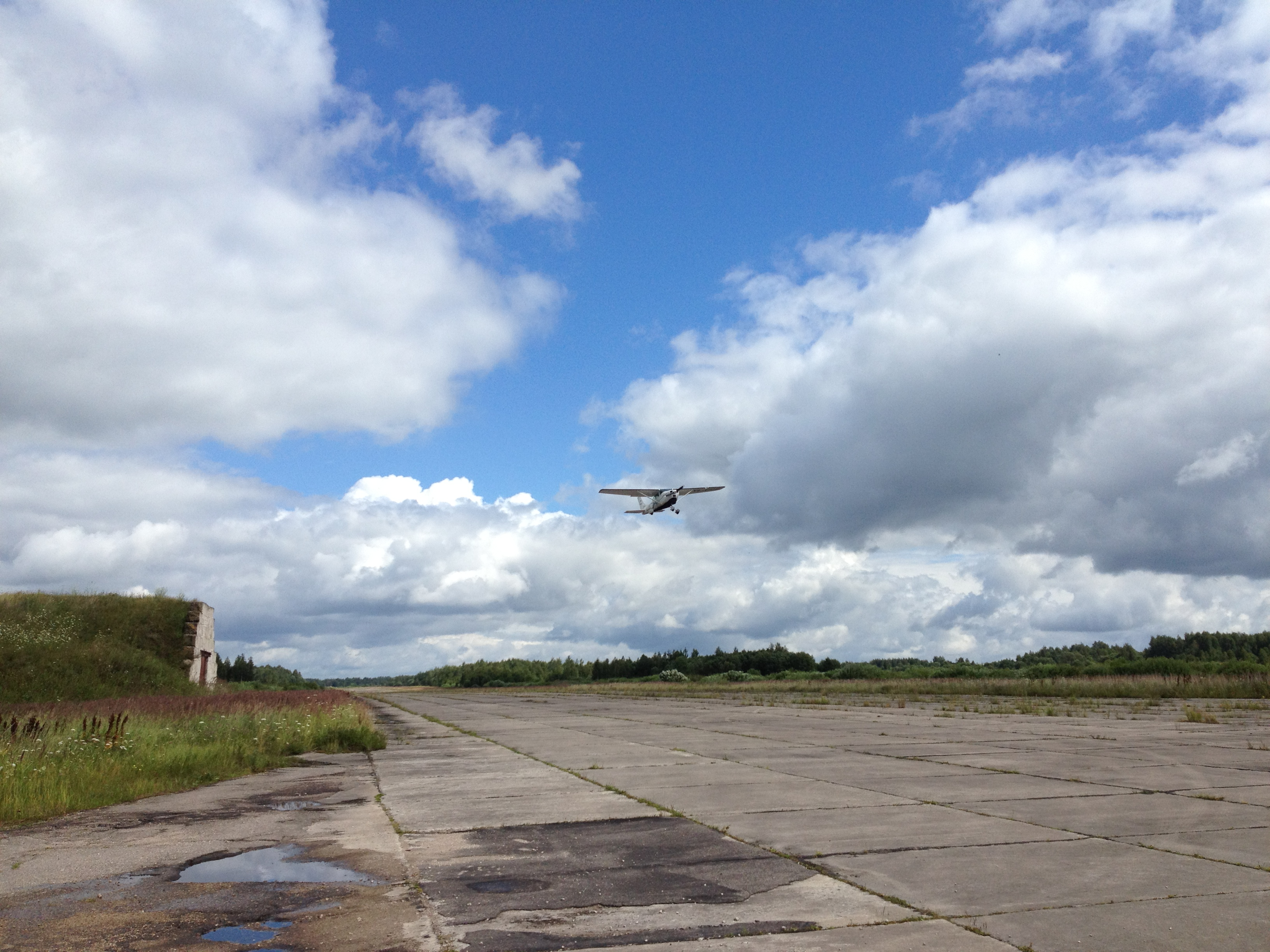 Airfield in Daugavpils, Latvia. Photo taken in 2012